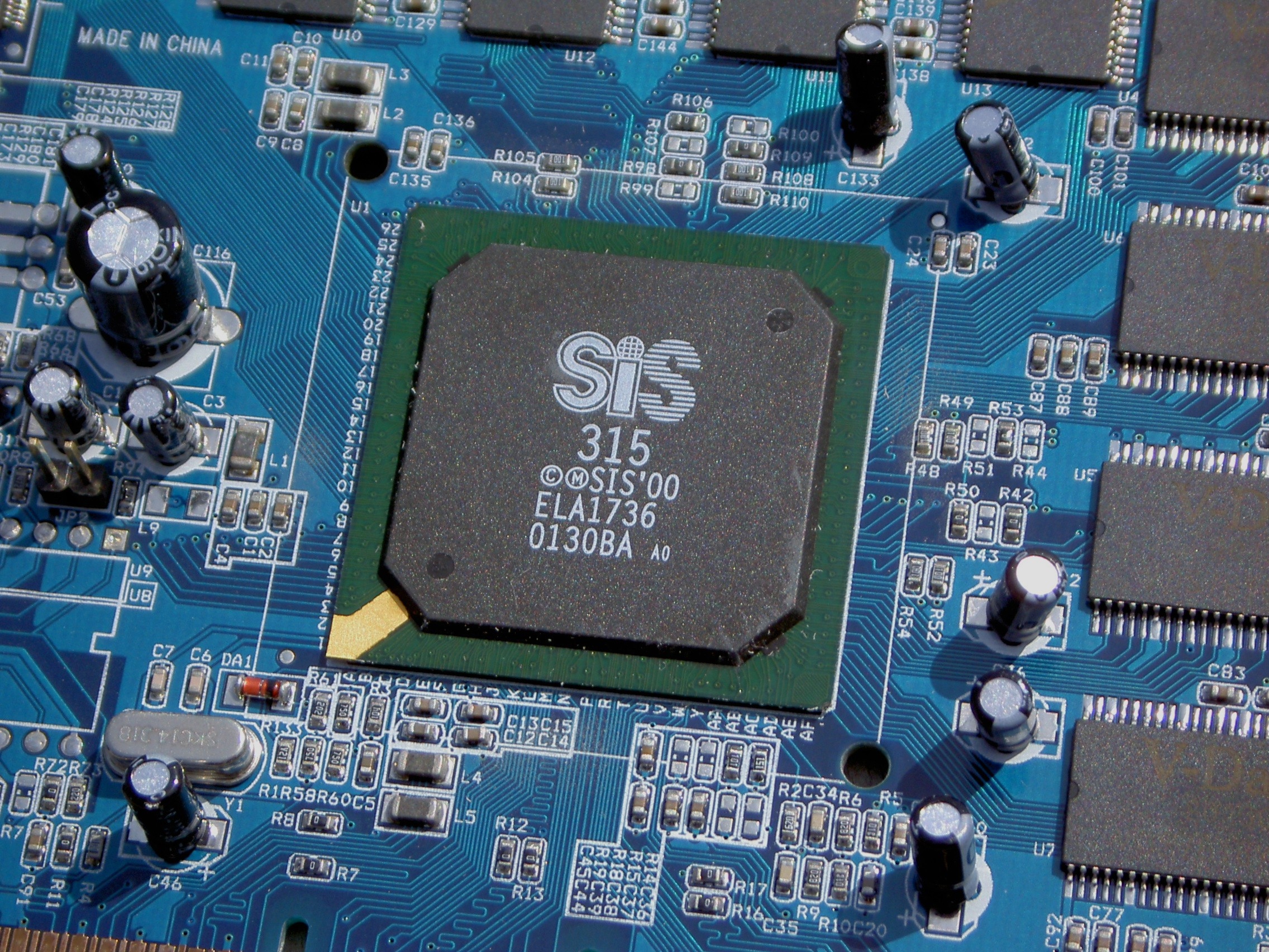 SiS 315 GPU